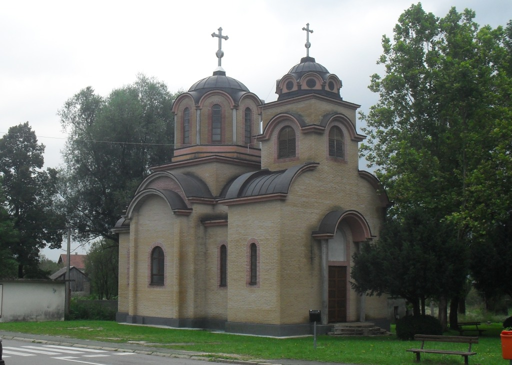 Serbian Orthodox church of Pentecost in Donji Lapac, Lika County, Croatia.